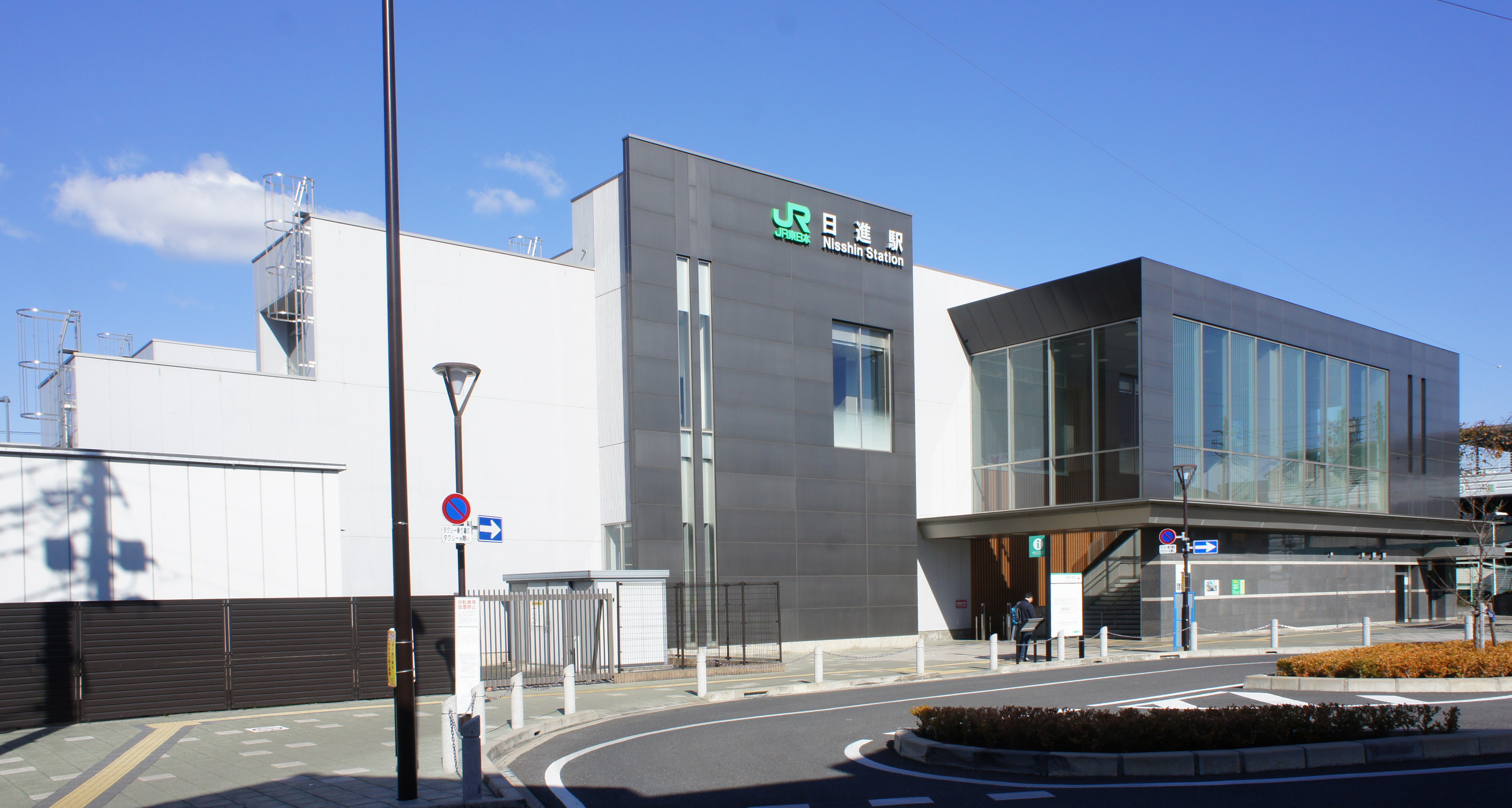 South Exit of JR Kawagoe-Line Nisshin Station